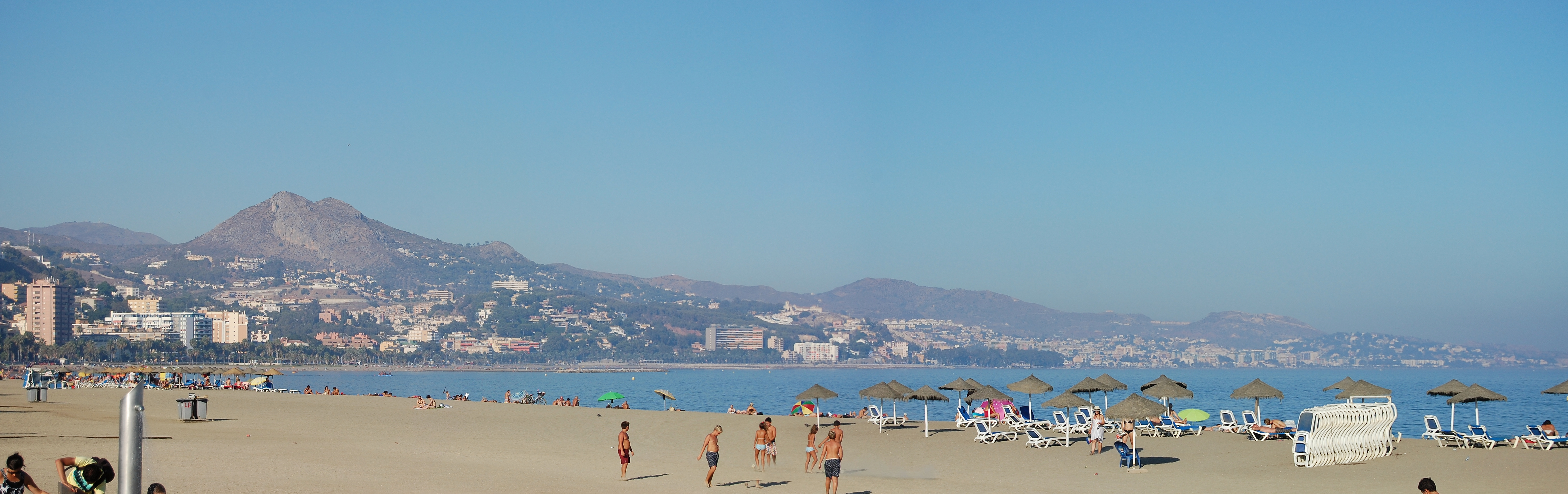 Malagueta Beach, Malaga, Spain.